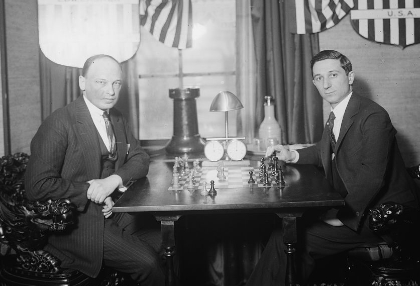 Chess players Savielly Tartakower (1887-1956) and Edward Lasker (1885-1981) (New York, 1924)